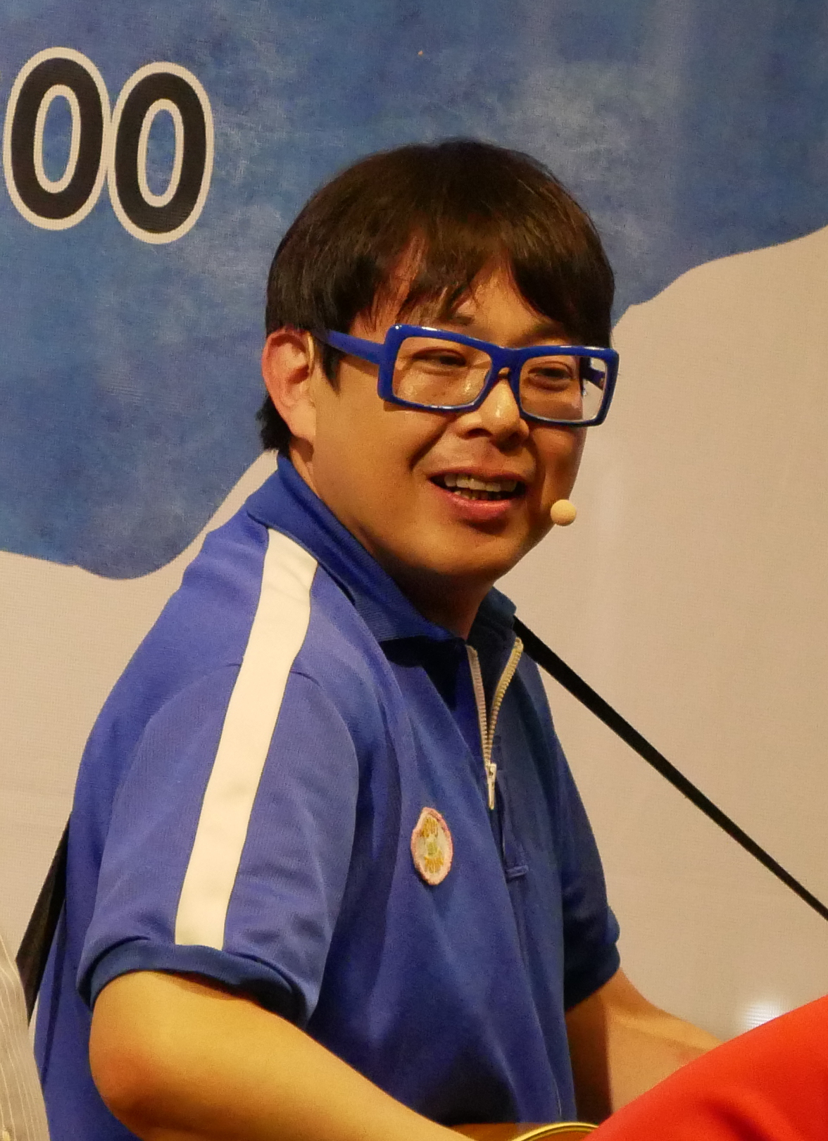 Tetsu and Tomo (テツandトモ) are an owarai duo.